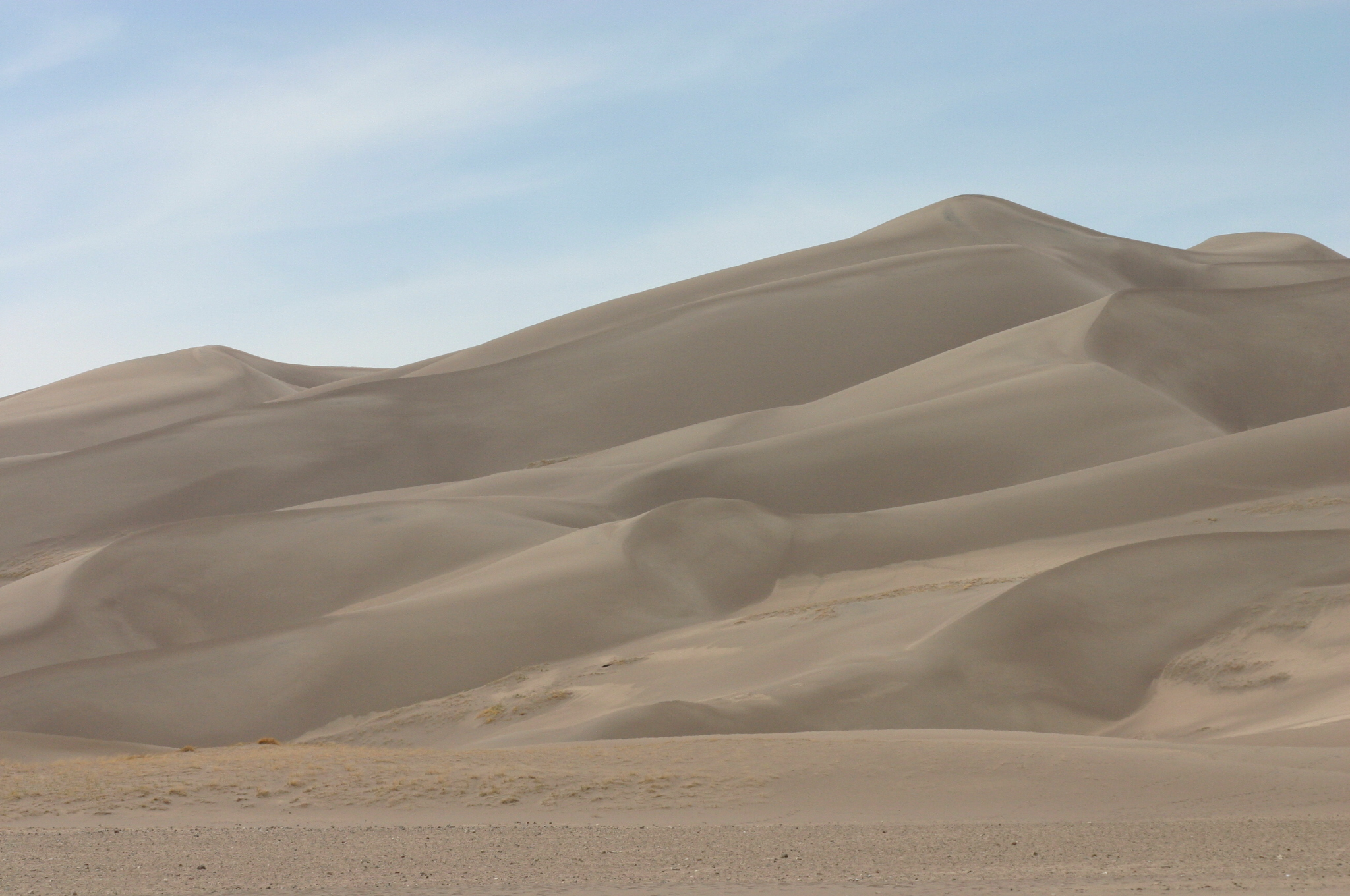 Towering Sand Dunes